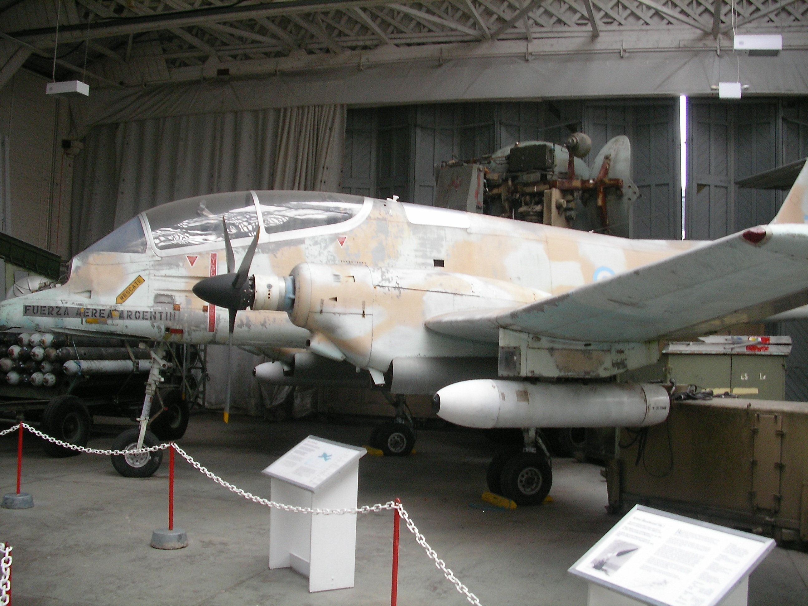 Stored in maintenance hanger at Duxford. original paintwork